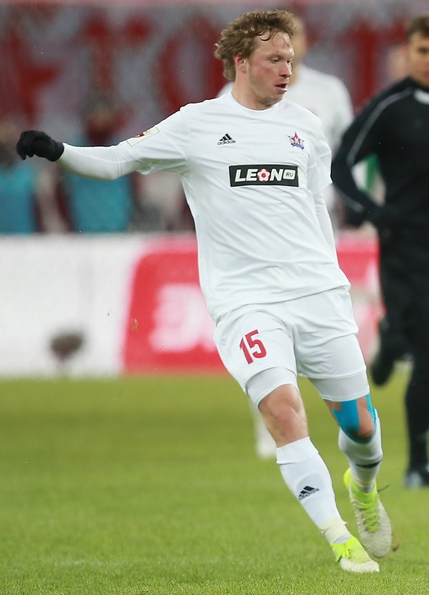 Yevgeni Balyaikin with FC SKA-Khabarovsk in a game against FC Spartak Moscow.